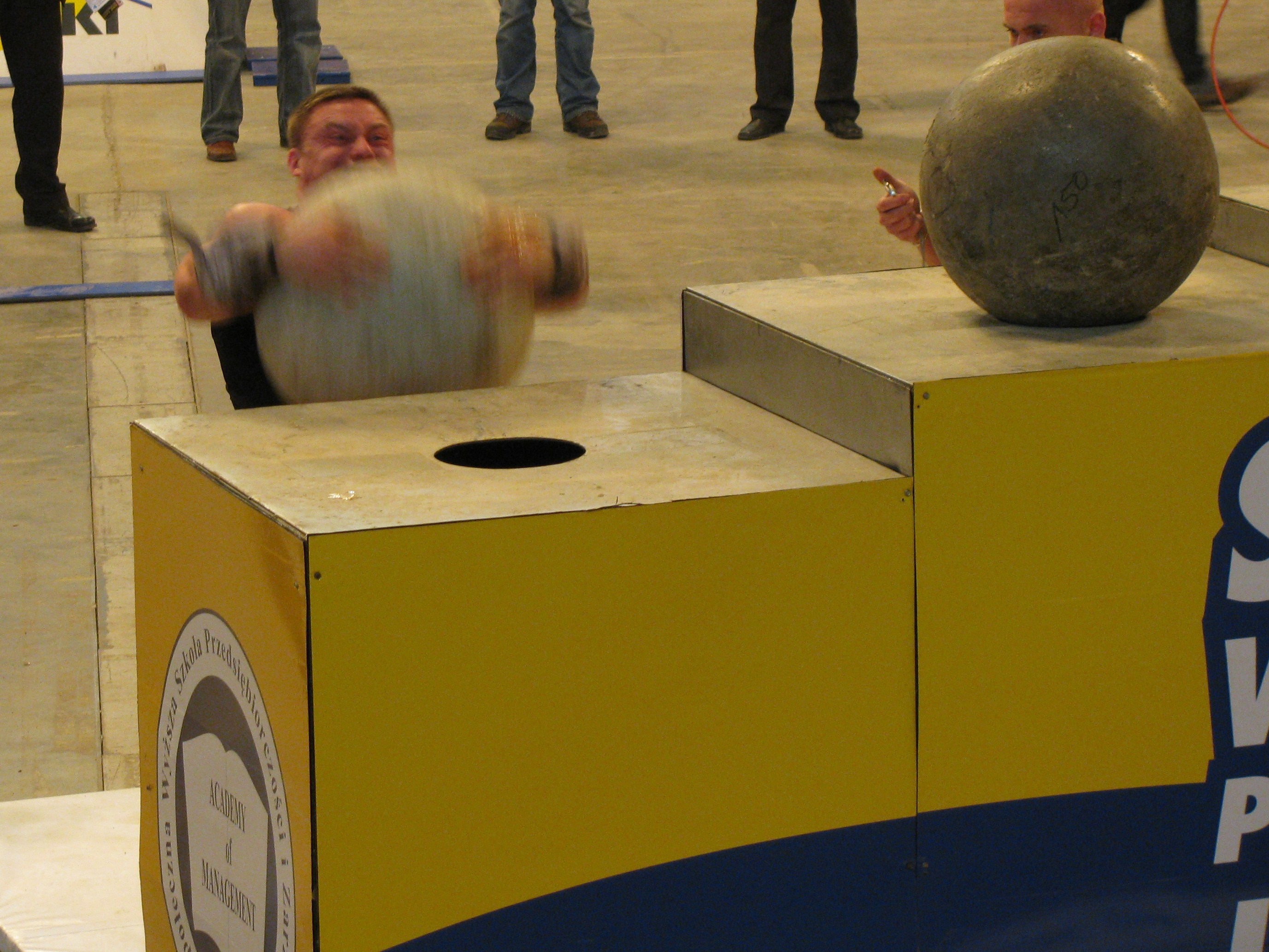 Krzysztof Radzikowski - a strength athlete from Poland at Atlas Stones.